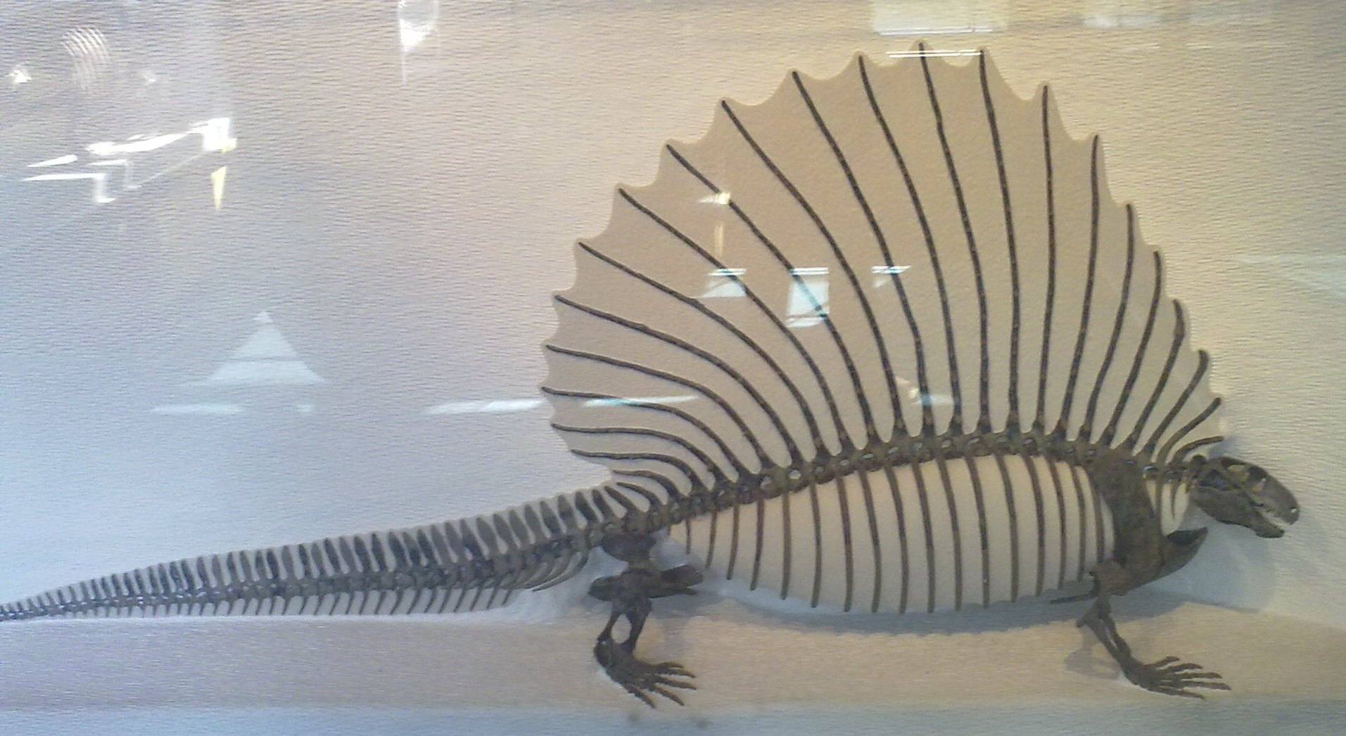 Can't remember what this one is called either. Aargh!